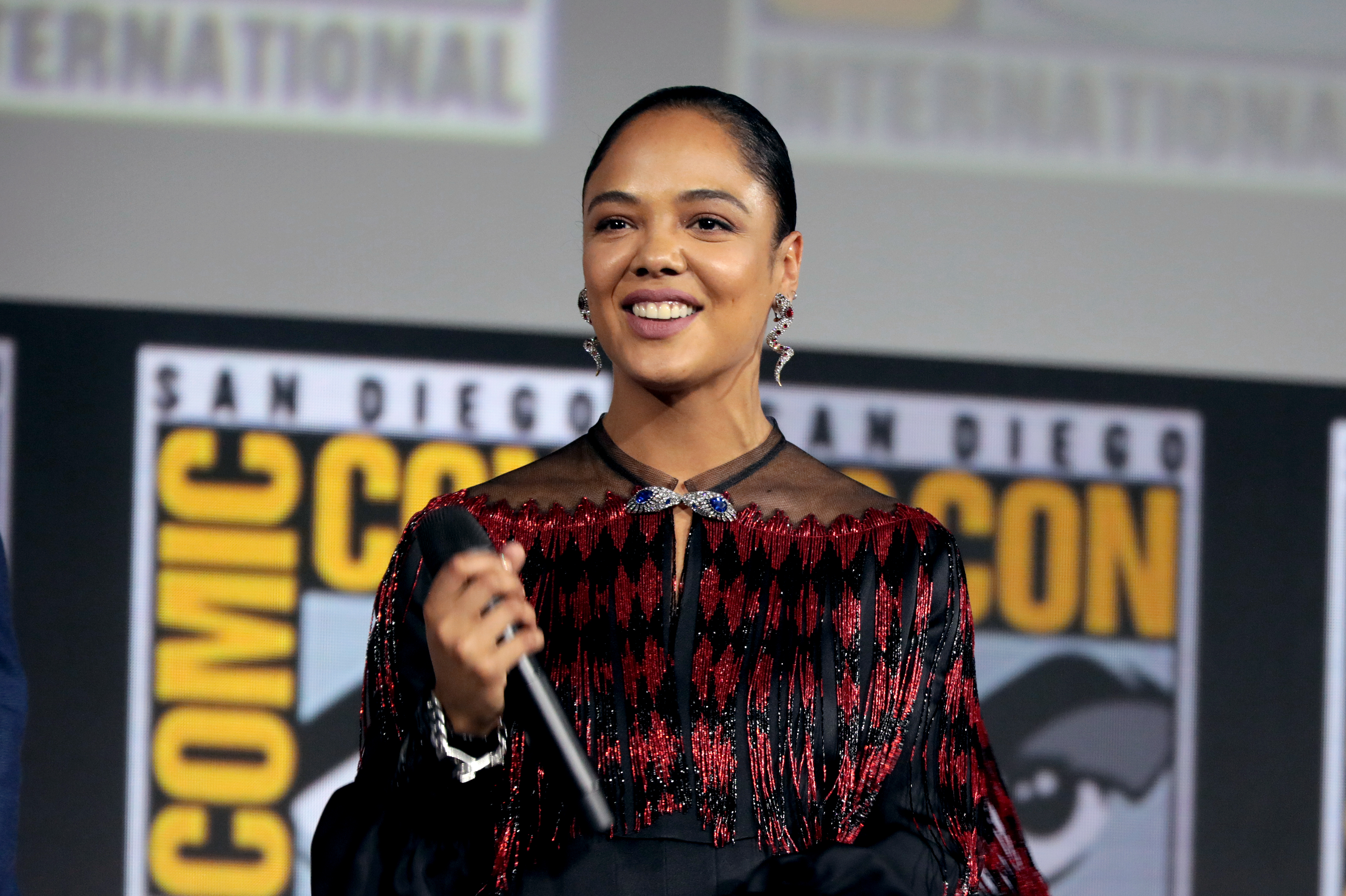 Tessa Thompson speaking at the 2019 San Diego Comic Con International, for "Thor: Love and Thunder", at the San Diego Convention Center in San Diego, California.